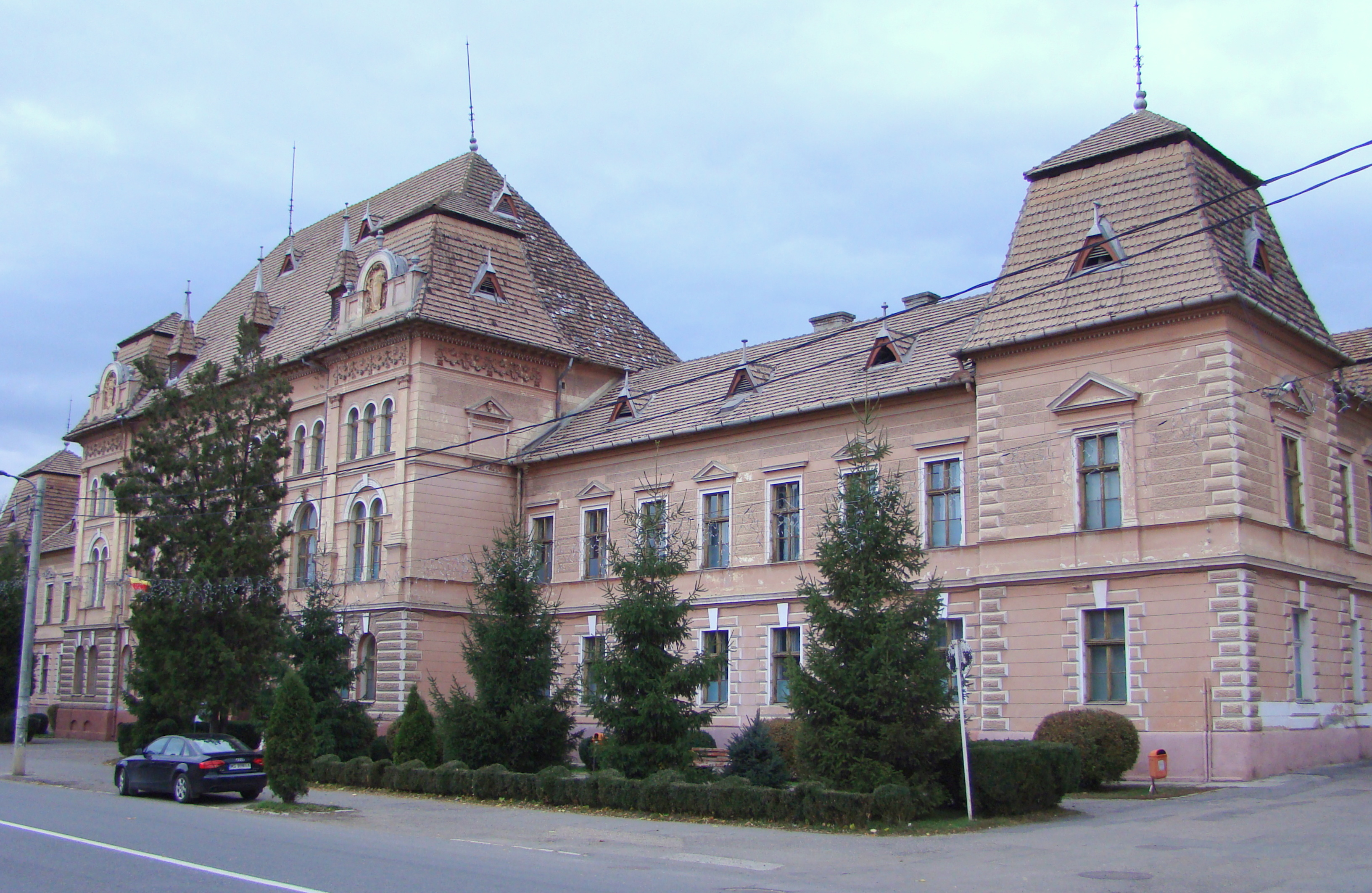 Technical High School in Târnăveni, the former Târnava Mică County Hall during the interbelic period.